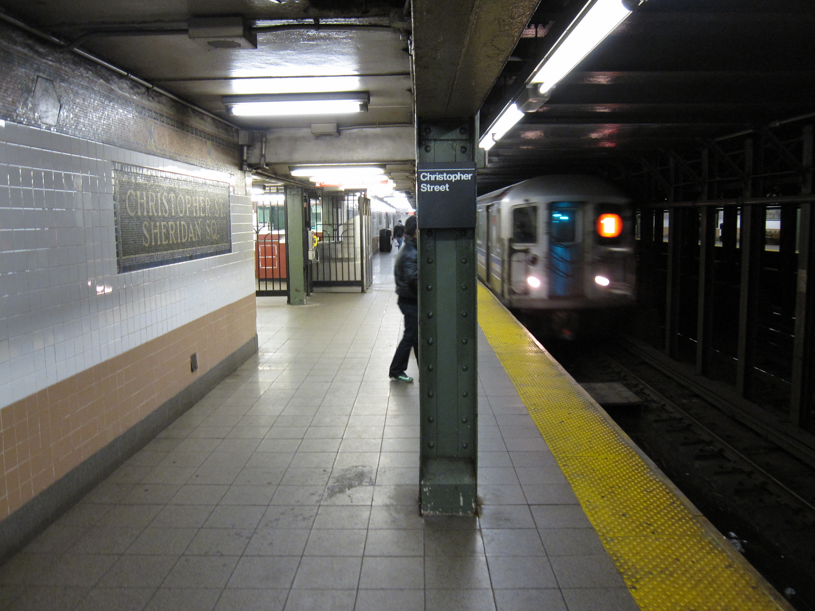 Christopher Street – Sheridan Square (IRT Broadway – Seventh Avenue Line)